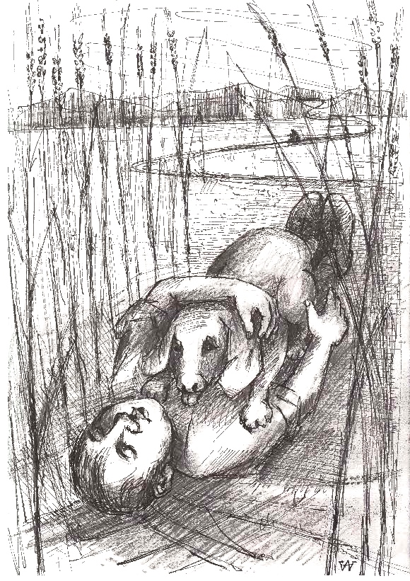 The Lost Wanderer